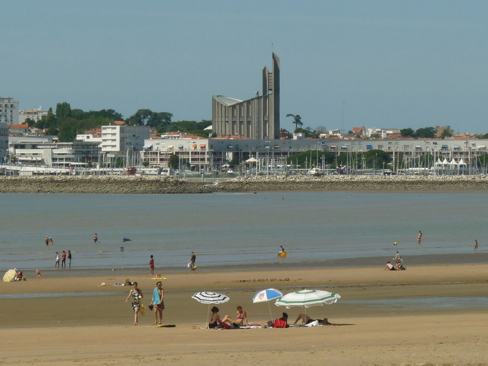 beach, port, sea front and church, Royan, Charente-Maritime, SW France